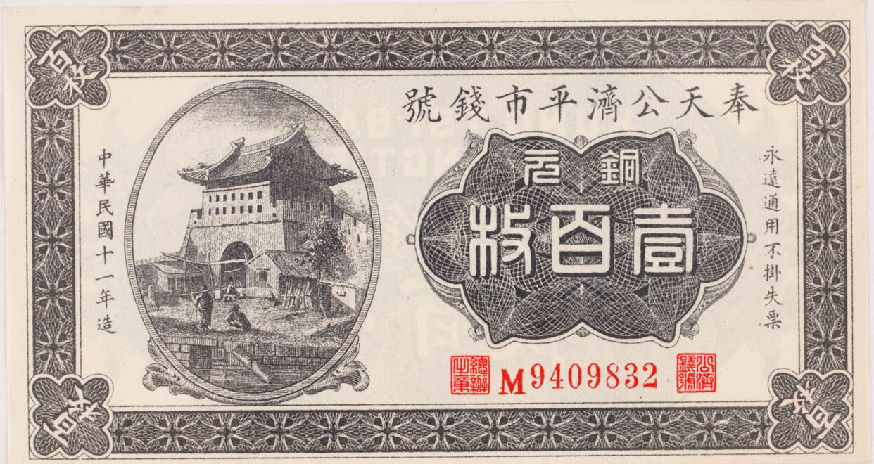 Banknote of the Kung-tsi-Bank of Feng Tien, also known as Fengtien Public Exchange Bank.